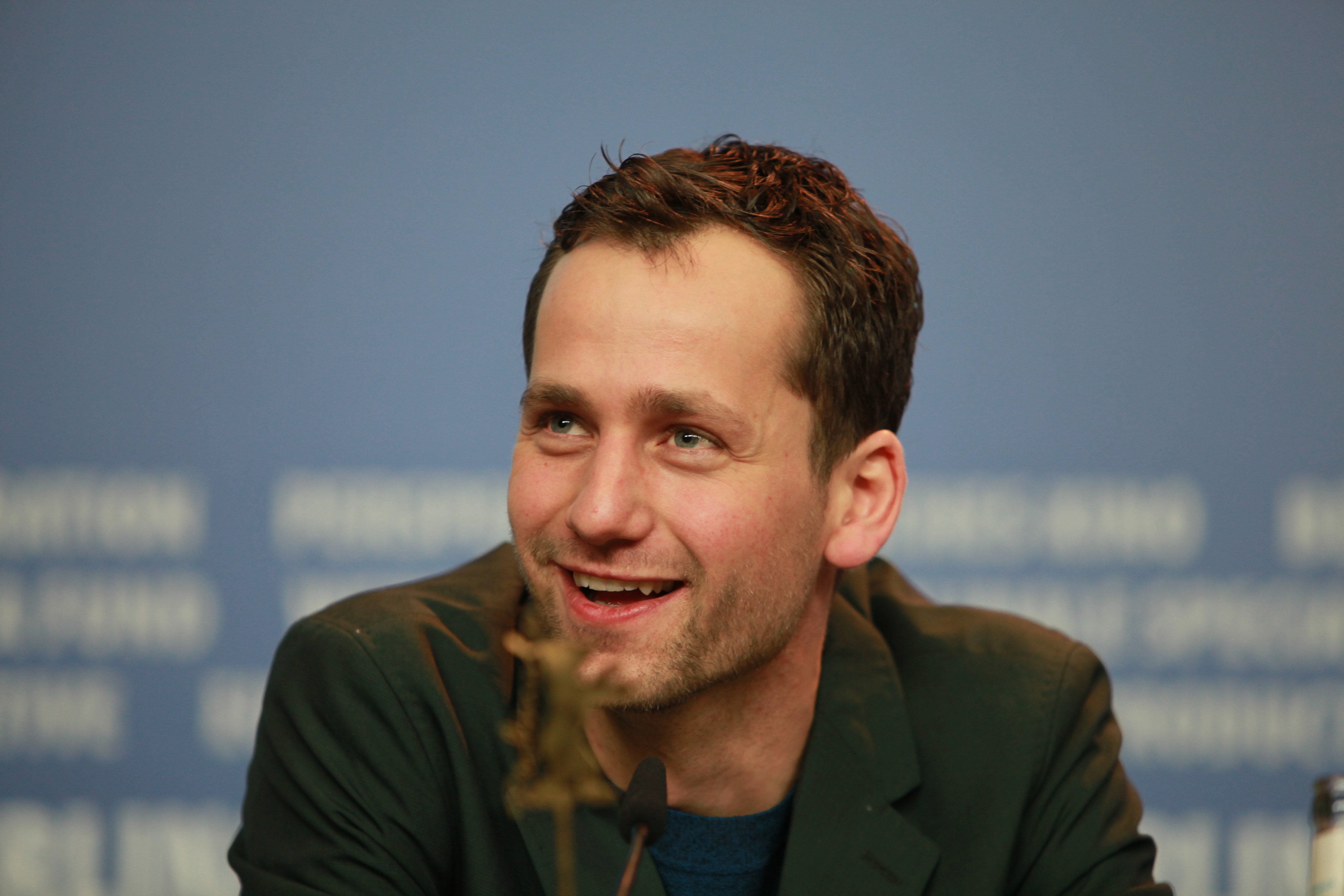 German actor Florian Stetter at the Berlinale 2014